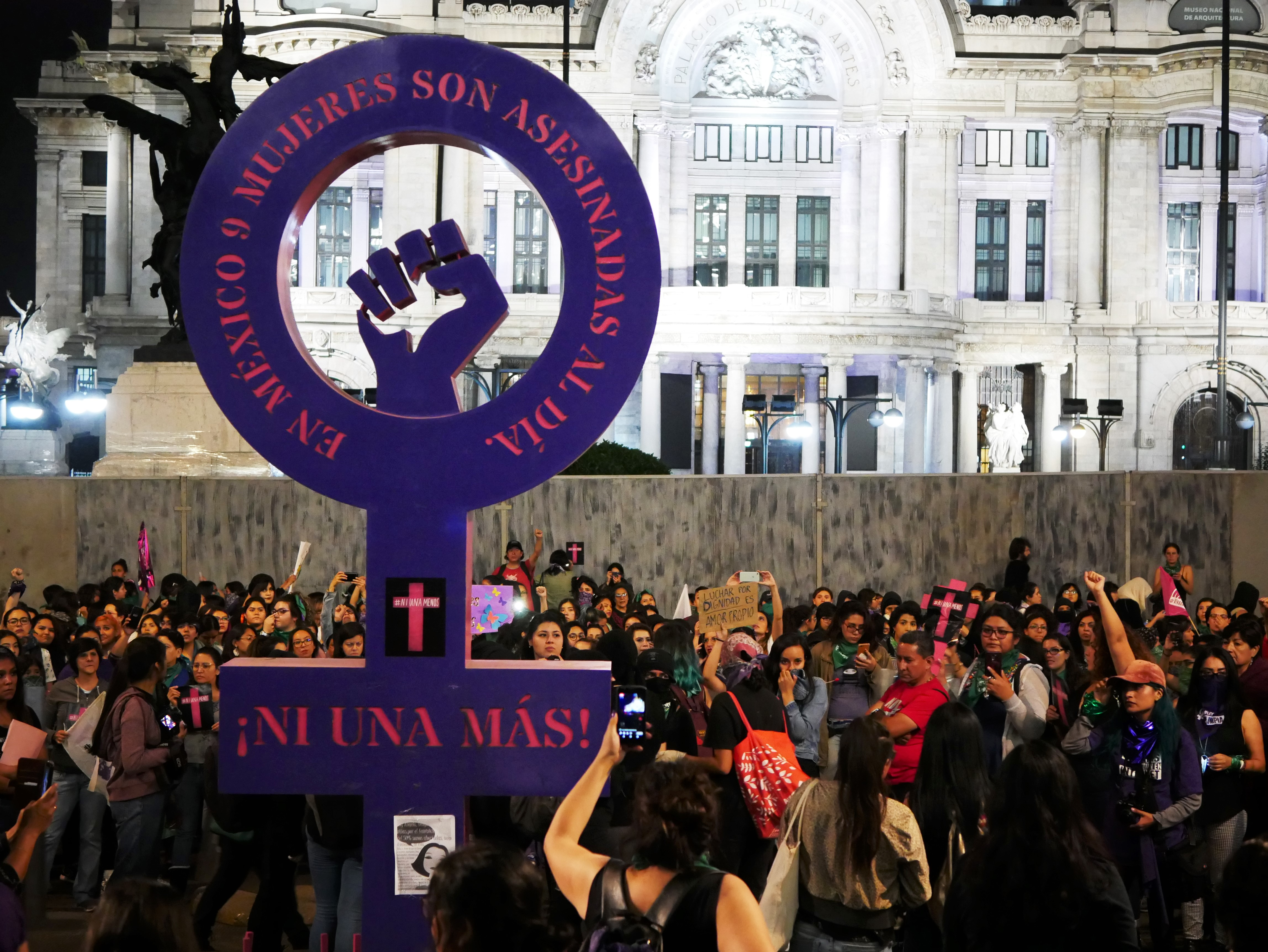 International Day for the Elimination of Violence against Women 2019 march in Mexico City in front of Palacio Bellas Artes. The purple "Ni una mas!" is a permanent monument- also called the Anti-monument- to murdered women in Mexico and femicide in the heart of the city. The wall of sheet metal was put up in advance of the demonstration to protect the building and other monuments in the area, and almost torn down in places by the crowd bent upon spray painting and breaking anything they could.